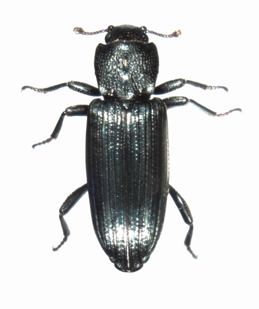 adult Ascetoderes sp. Auckland Domain, on dead Eucalyptus trunk at night. Auckland, New Zealand, 12 Apr 2010, S.E. Thorpe.